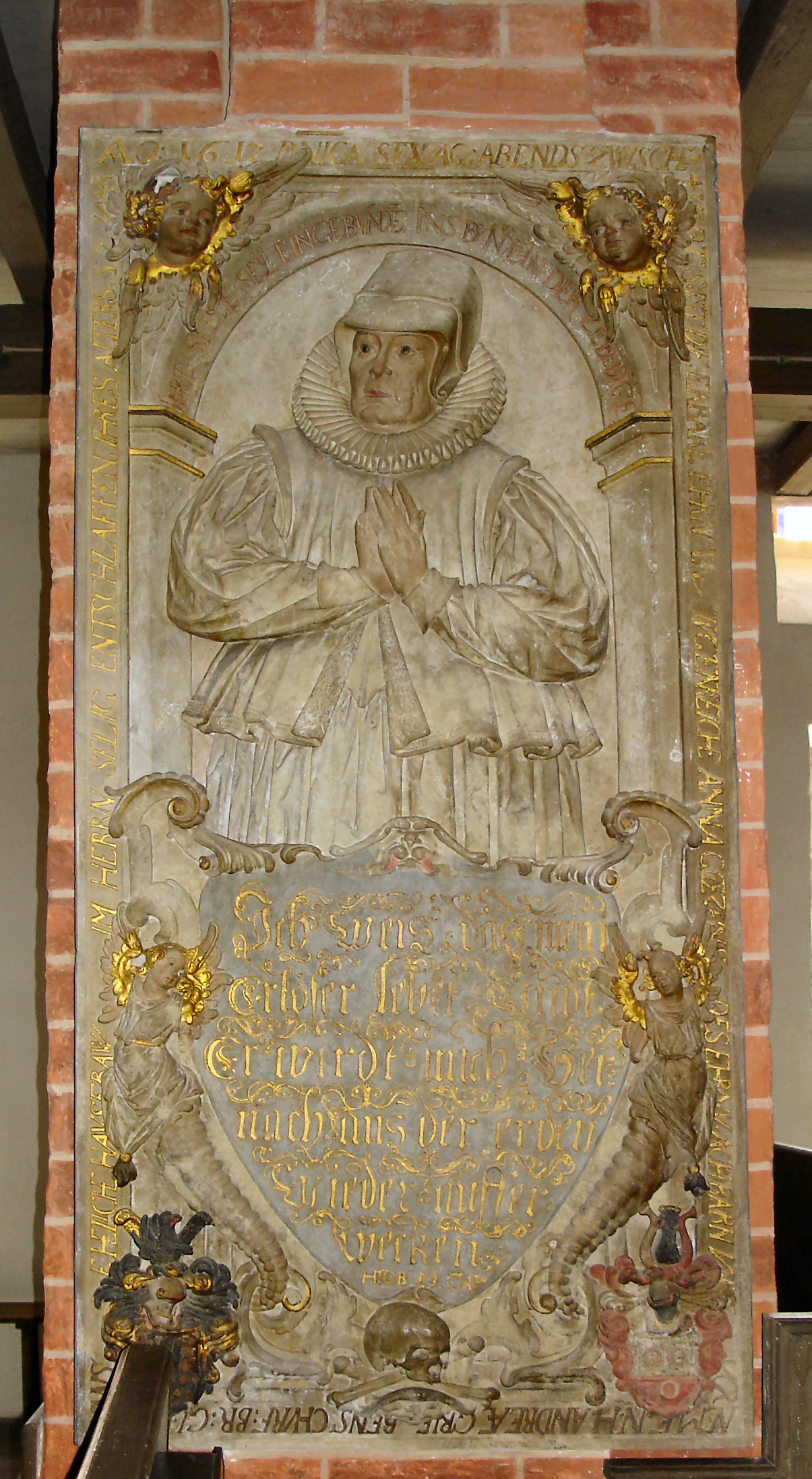 Church in Lenzen in Brandenburg, Germany